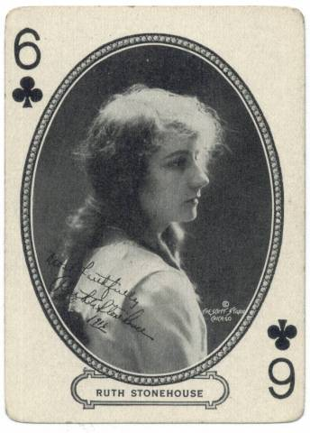 Ruth Stonehouse